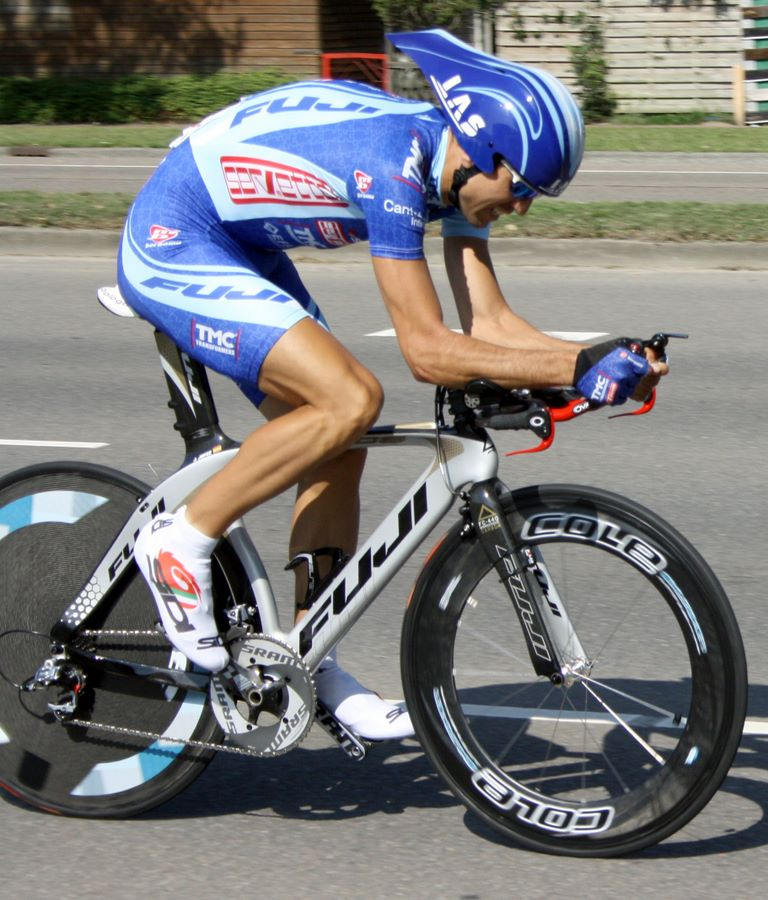 Josep Jufré at the 2009 Eneco Tour prologue